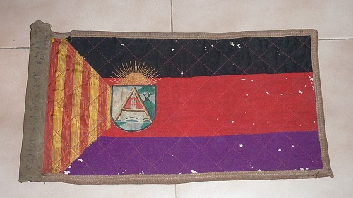 Front side of the Regional Defence Council of Aragon's flag.